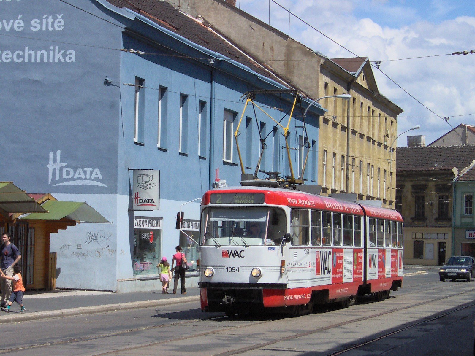 Tatra K2T tram in Brno, Czech Republic